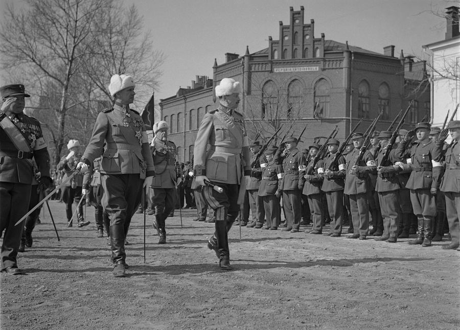 Marshal Mannerheim inspects the parade at the 20th anniversary of the liberation of Vyborg, in front of the co-educational school of Vyborg in the centre of the city. Alongside commanded Lieutnant General Harald Öhqvist. Beside him is the commander of the White guards Lauri Malmberg, behind among others Major General Hannes Ignatius.